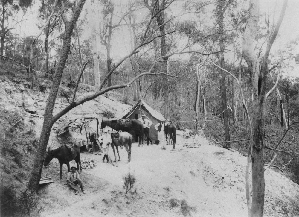 Mining camp at Mount Victoria near Mount Morgan circa 1892